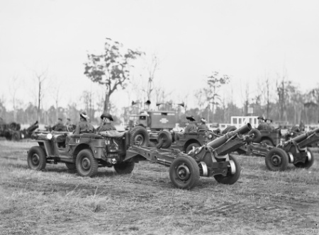 6th Division Ordnance QF 25-pounder Short guns being towed behind jeeps during a parade at Wondecla in Queensland.